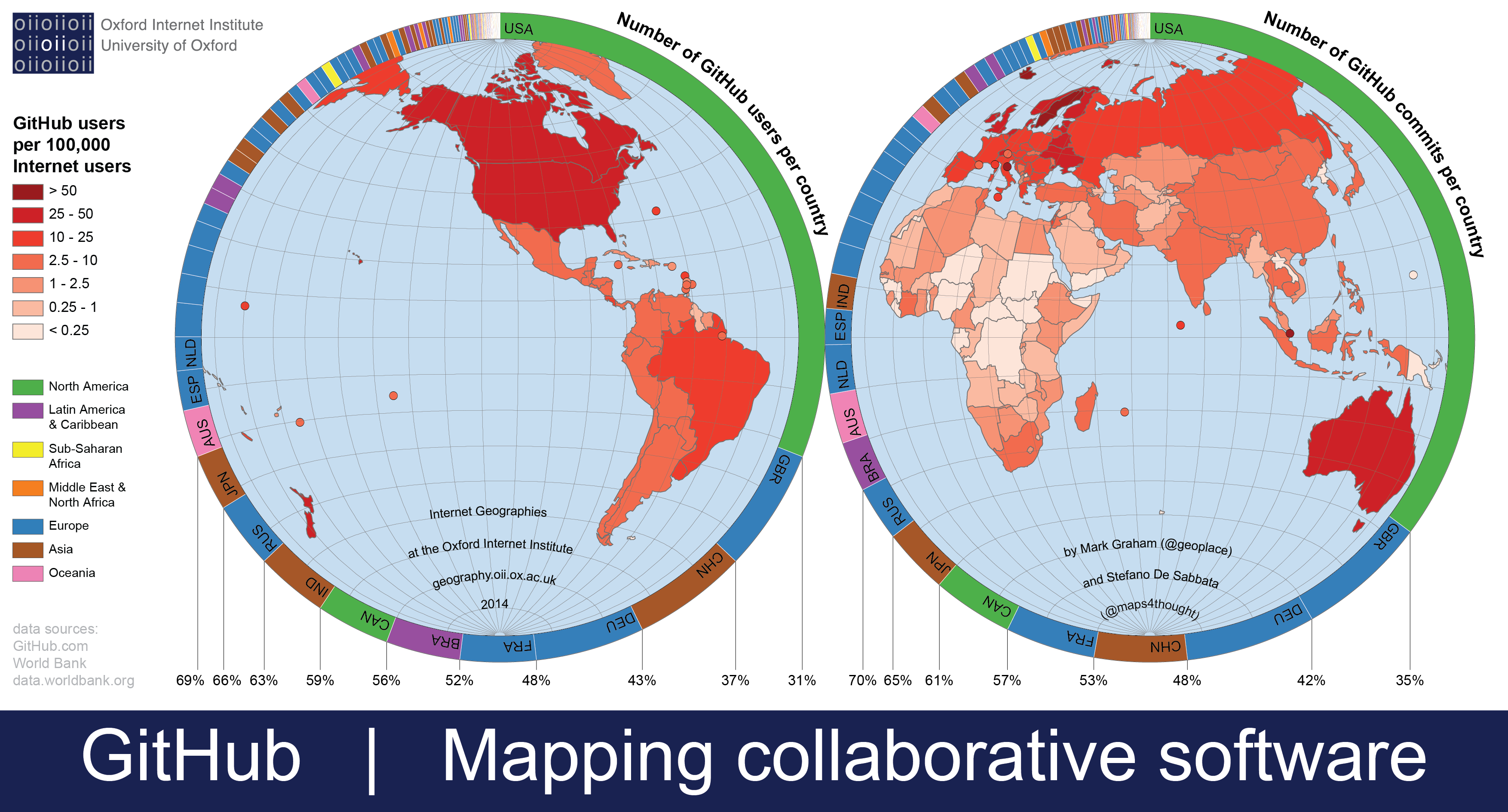 Github is one of the world’s biggest and best-known hosting services for software development projects. The shading of the map illustrates the number of users as a proportion of each country’s Internet population. The circular charts surrounding the two hemispheres depict the total number of GitHub users (left) and commits (right) per country. The uneven geographies on GitHub can possibly shed light on the ways in which different countries are being enrolled into a global knowledge economy.